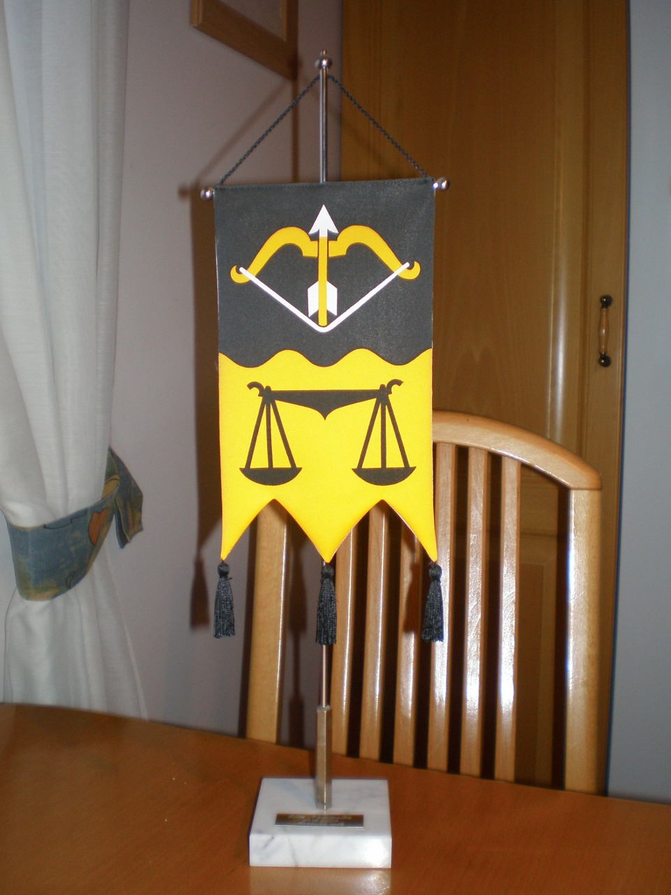 The pennant of the rural municipality of Mikkeli (1329–2001).